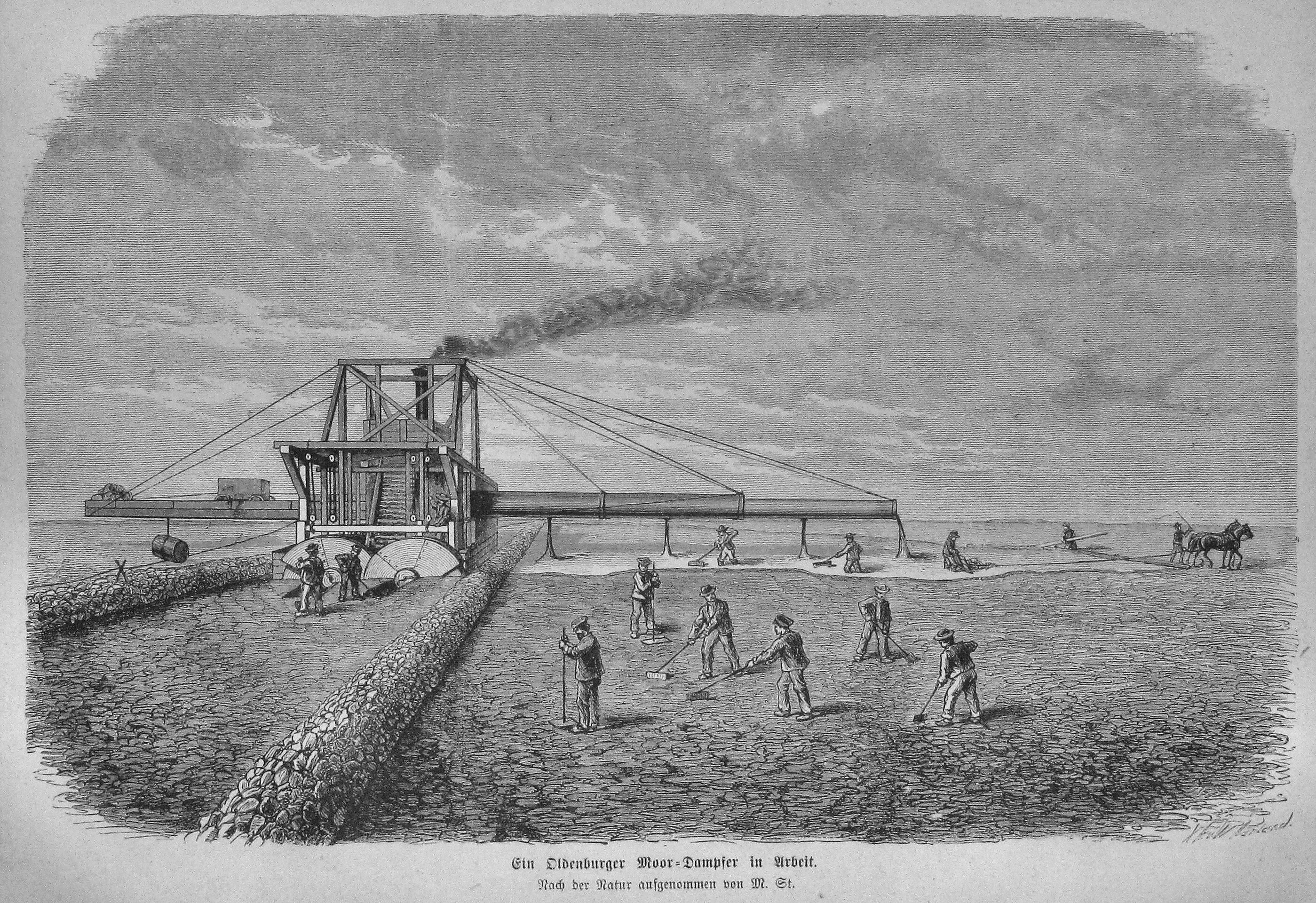 caption: "Ein Oldenburger Moor-Dampfer in Arbeit.Nach der Natur aufgenommen von M. St."